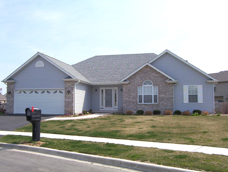 Single-family home 2